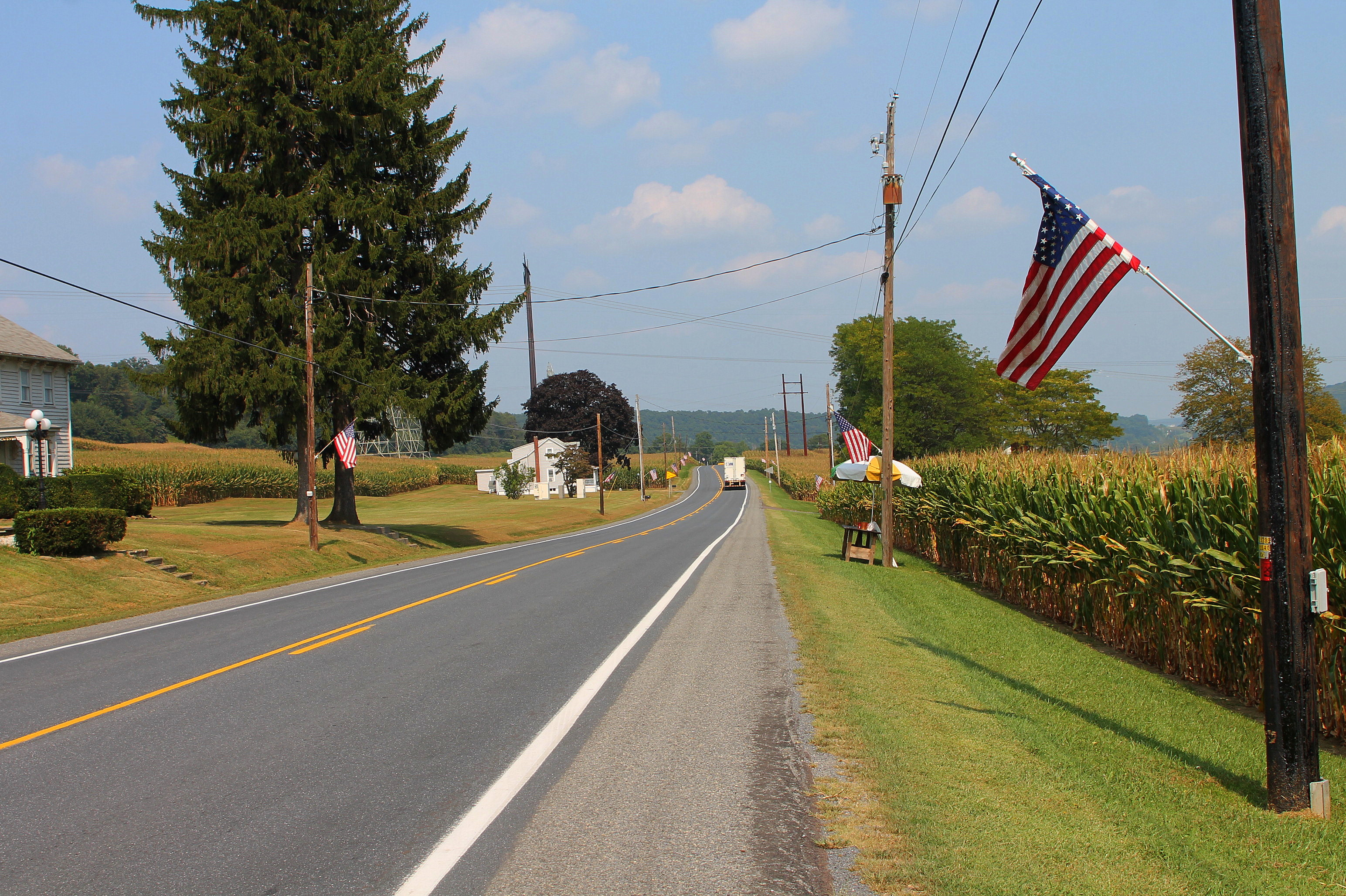 Pennsylvania Route 147 north in Upper Augusta Township, Northumberland County